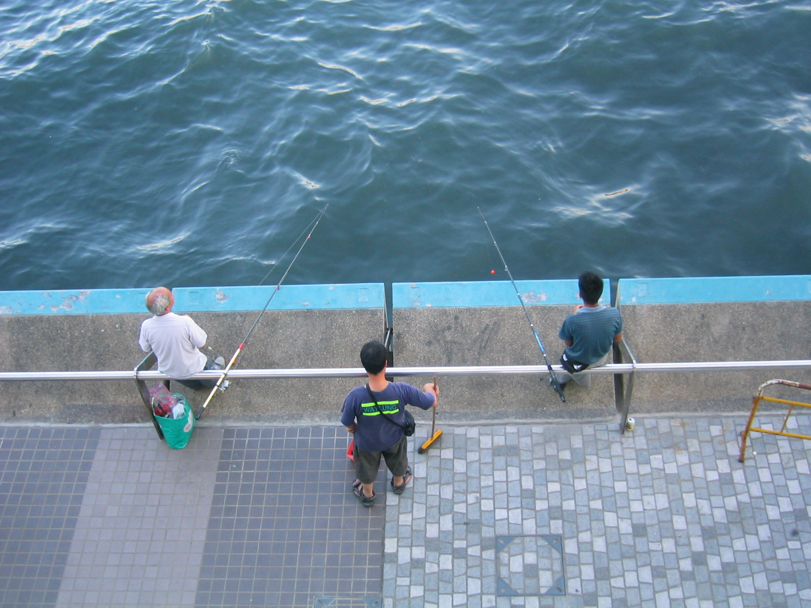 A janitor sweeping and two men angling by the Tsim Sha Tsui habour.